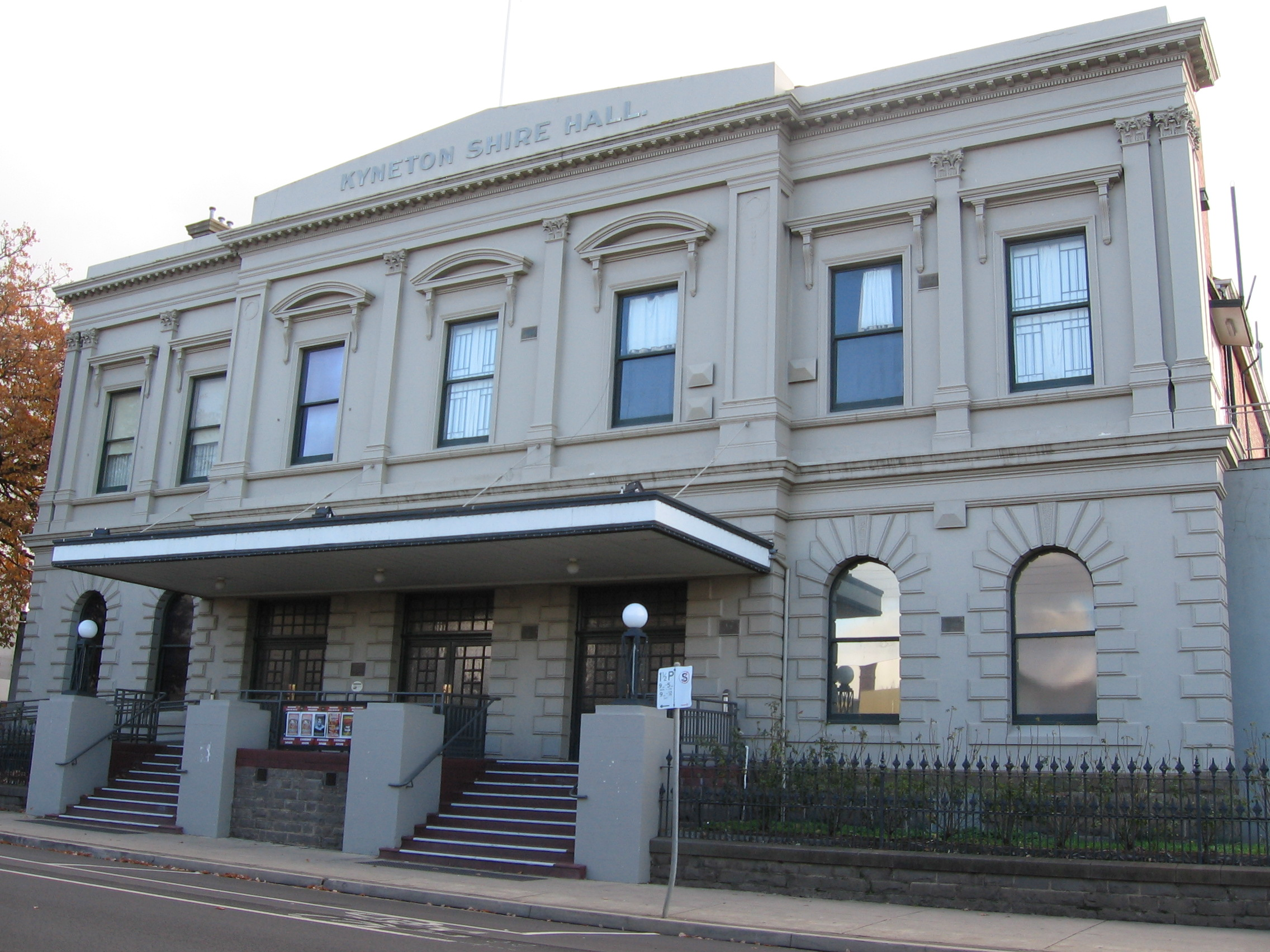 Former Shire Hall at Kyneton, Victoria